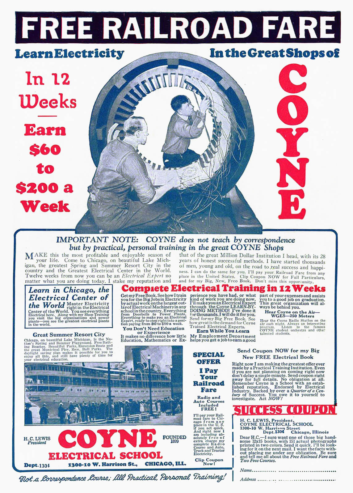 Advertisement for electrical training from the Coyne Electrical School of Chicago, Il. Advertisement from the back cover of the pulp magazine Amazing Stories (April 1926, vol. 1, no. 1).